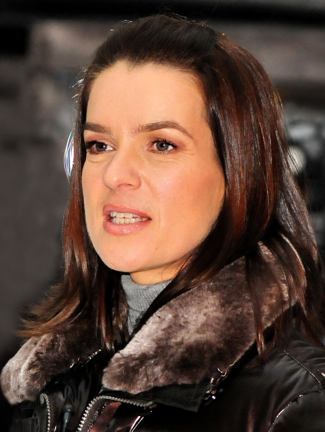 1988 Calgary Winter Olympic Figure Skating rivals Elizabeth Manley of Canada and Katarina Witt of Germany reunited at Vancouver's Robson Square as part of the Vancouver 2010 Winter Olympics.